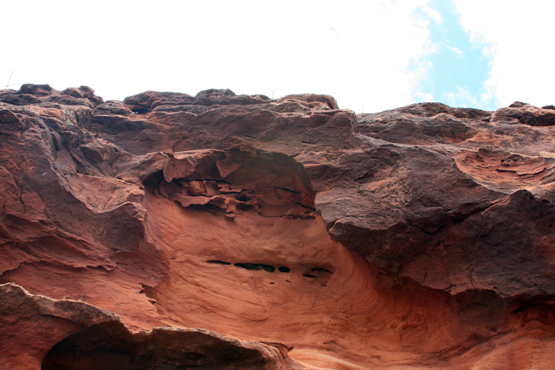 Sandstone cliffs in Bahia, Brazil. The rare parrot, Lear's Macaw (Anodorhynchus leari), nests in these cliffs.